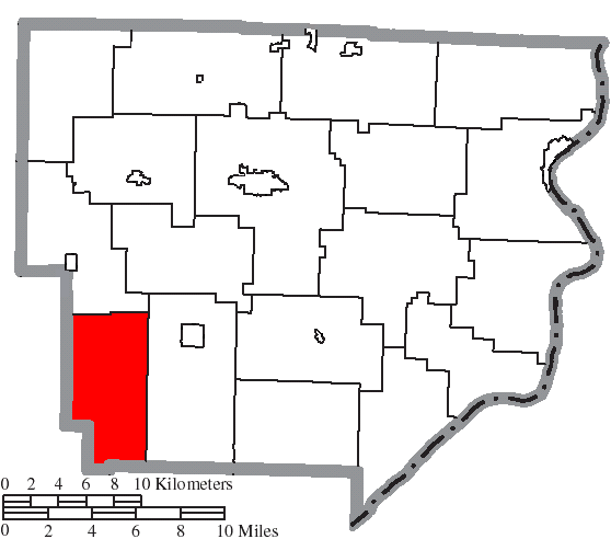 Map of the municipal and township boundaries of Monroe County, Ohio, United States, as of the 2000 census, with the location of Bethel Township highlighted. Township borders are shown only in unincorporated areas in order to differentiate incorporated and unincorporated areas more clearly.